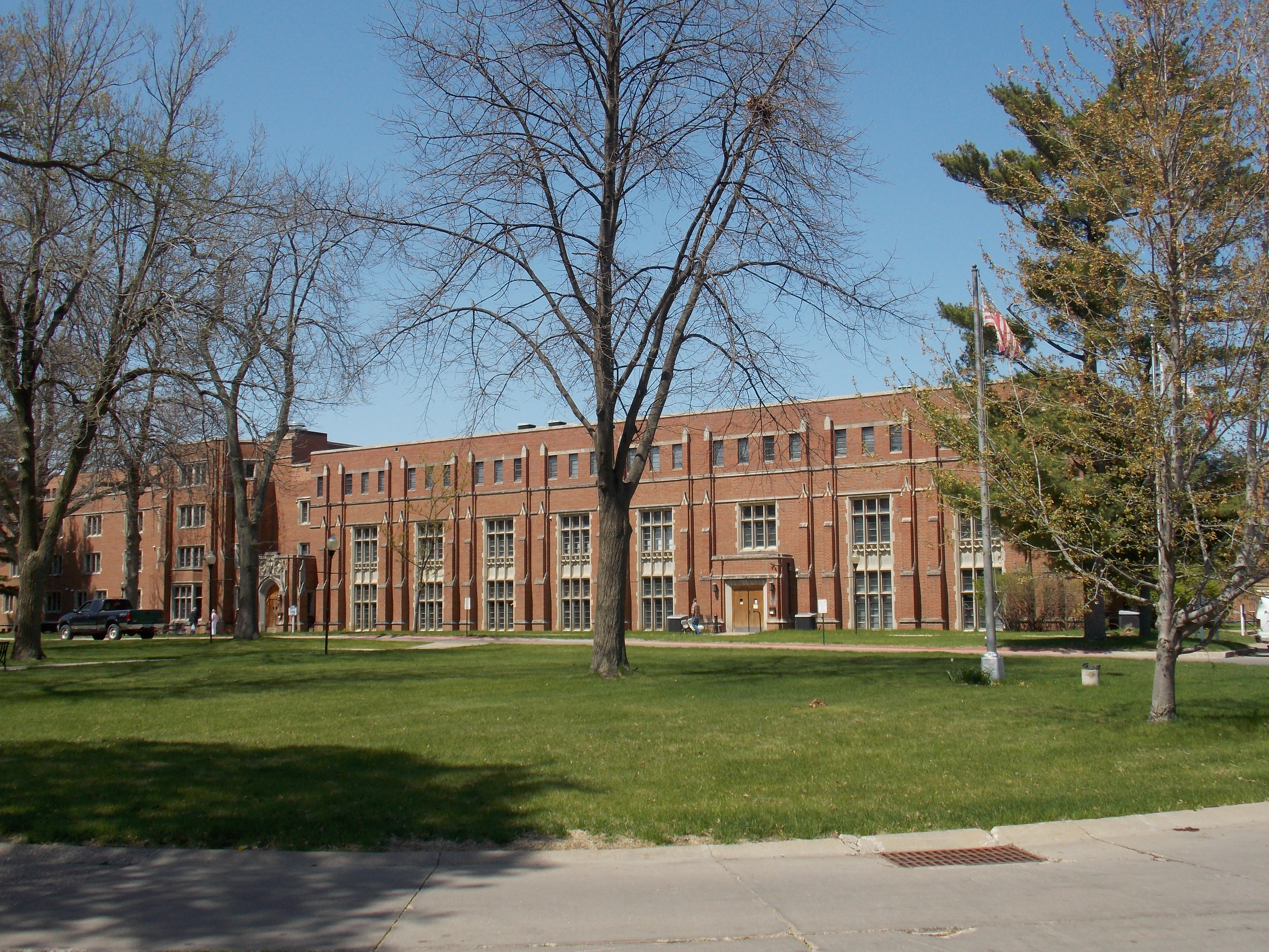 Petersen Hall on the campus of the former Marycrest College in Davenport, Iowa. The campus forms an historic district on the National Register of Historic Places, and now houses apartments for senior citizens. The building was built in three stages: 1948, 1951, 1962.